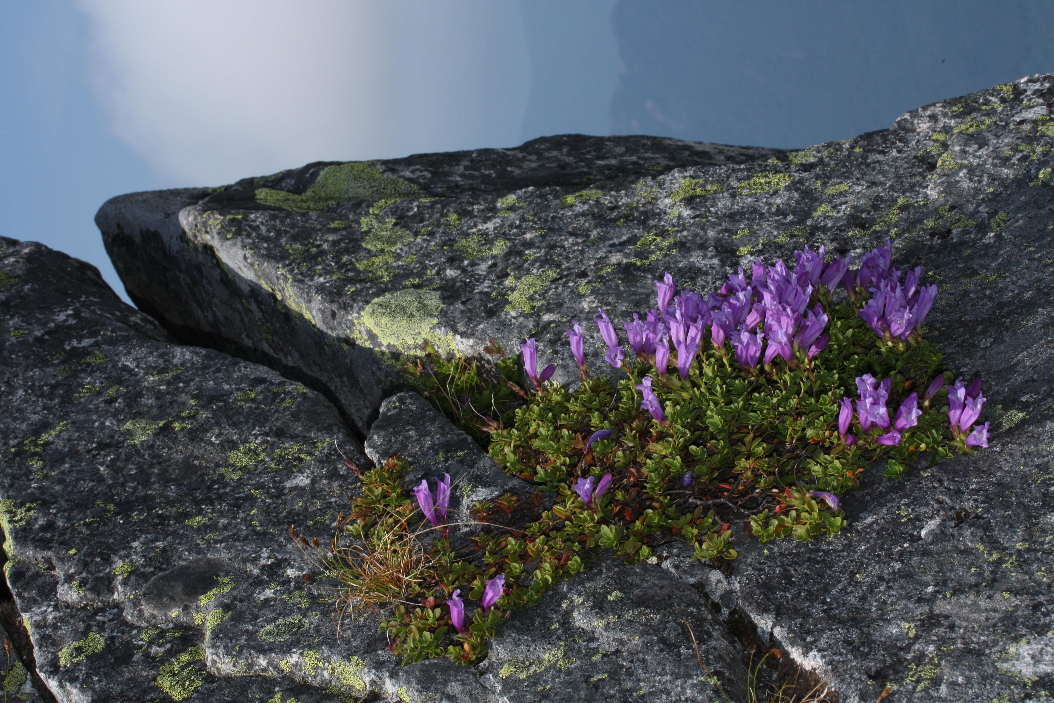 Davidson's Penstemon